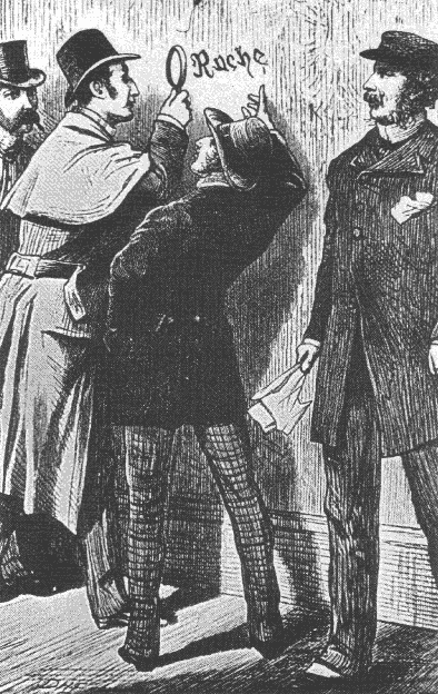 First ever appearance of Sherlock Holmes